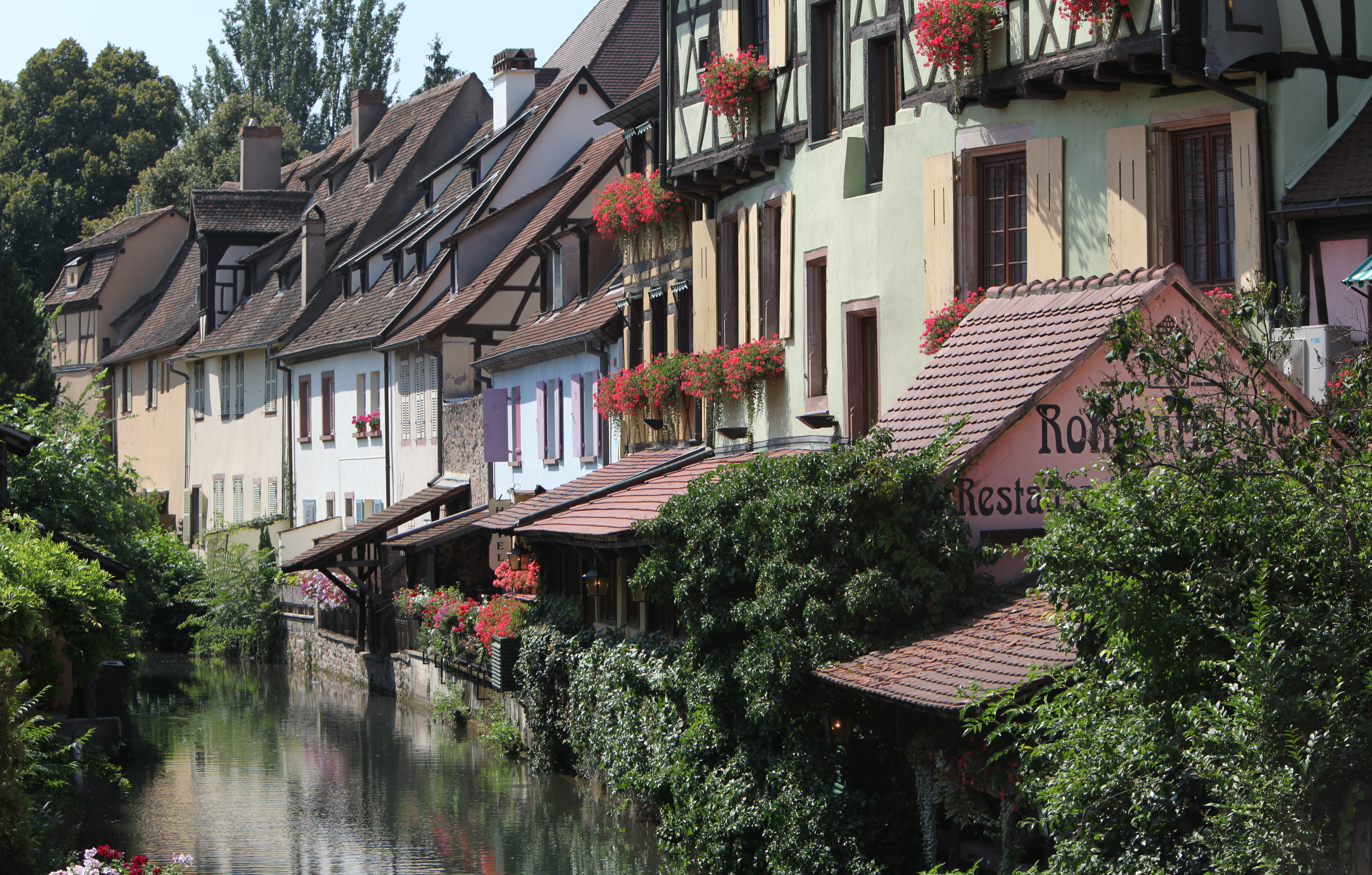 The little Venice in Colmar (Haut-Rhin, France).